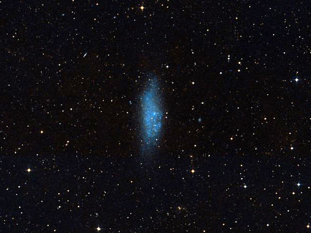 Wolf-Lundmark-Melotte Galaxy